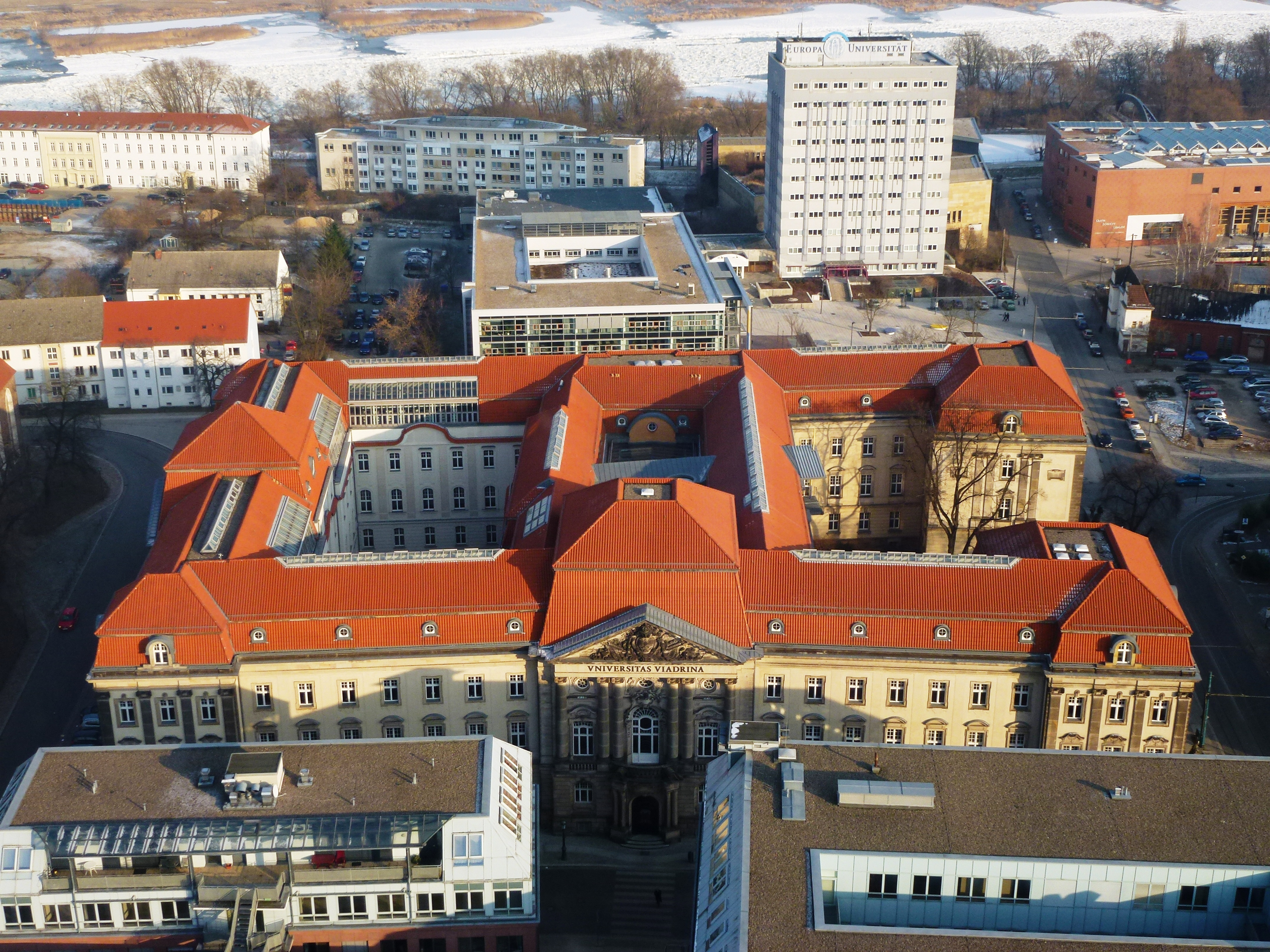 View from Oderturm skyscraper to main building of Europa-Universität Viadrina in Frankfurt (Oder), Brandenburg, Germany